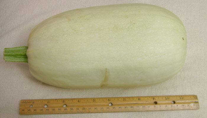 A Spaghetti Squash.